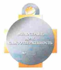 Order of Pirogov, reverse. Russian Federation.